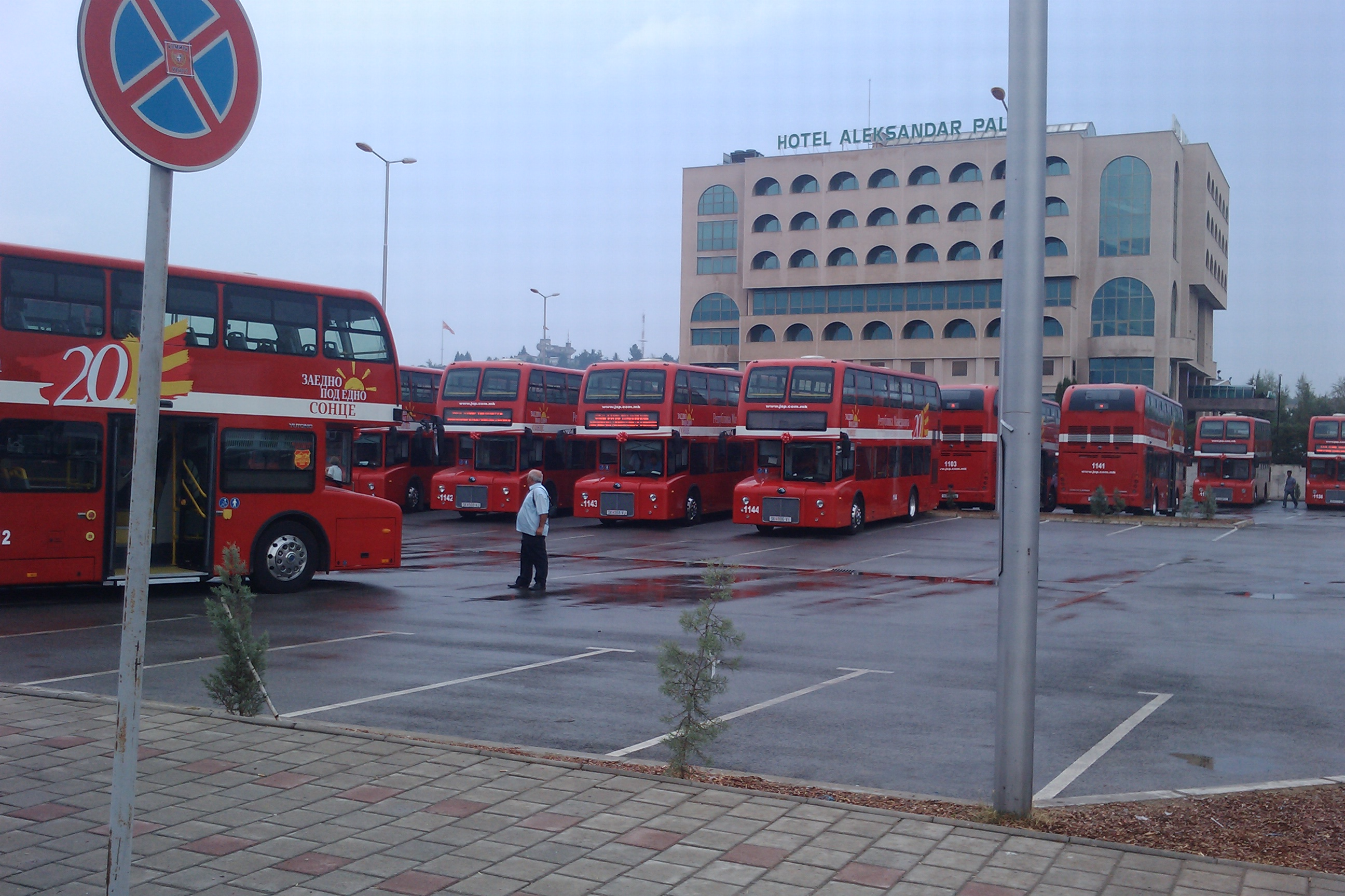 Double-decker buses specially designed for Skopje public transport